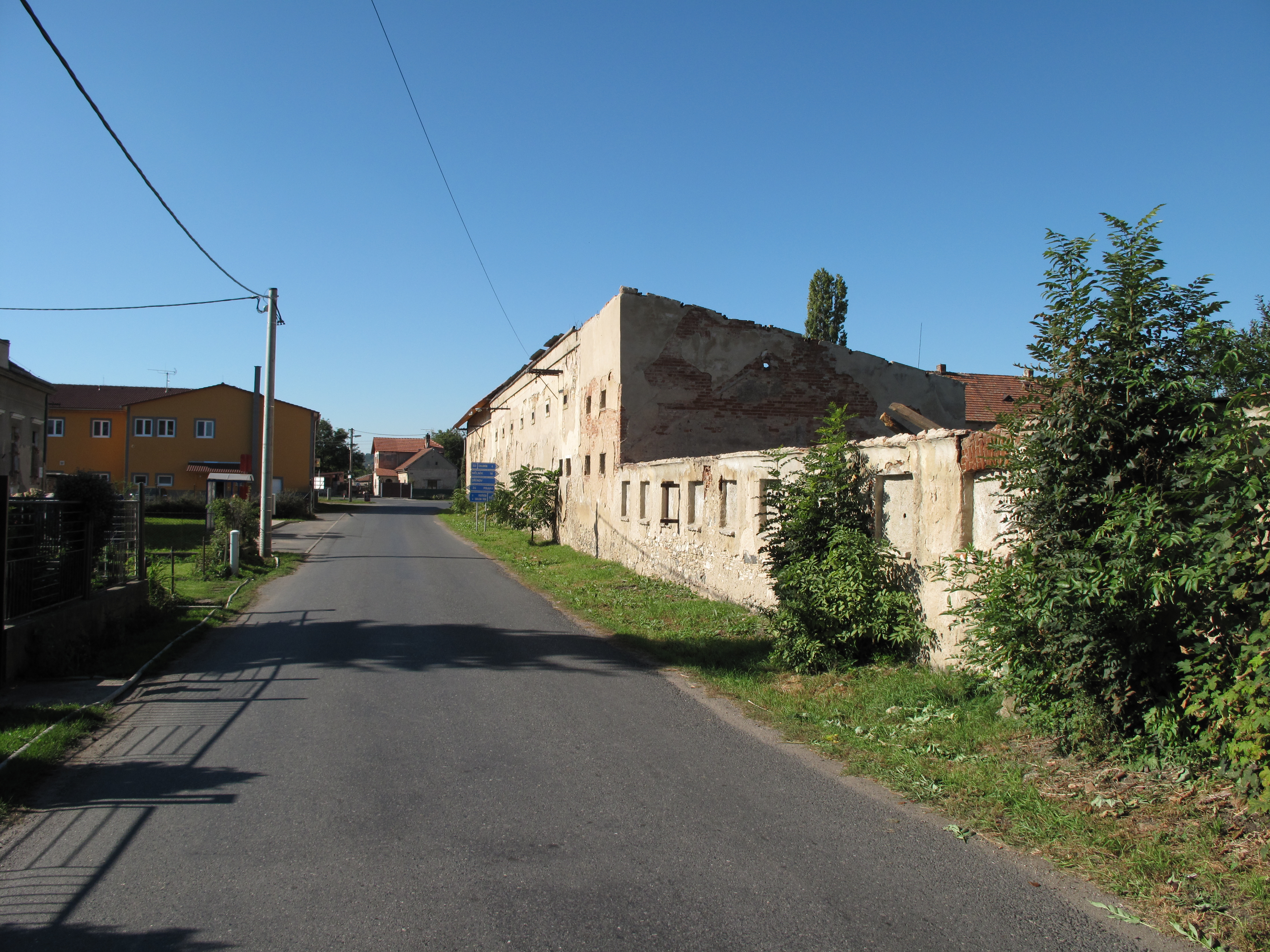 Farm and restaurant in Netřeba village, Mělínk District, Czech Republic.